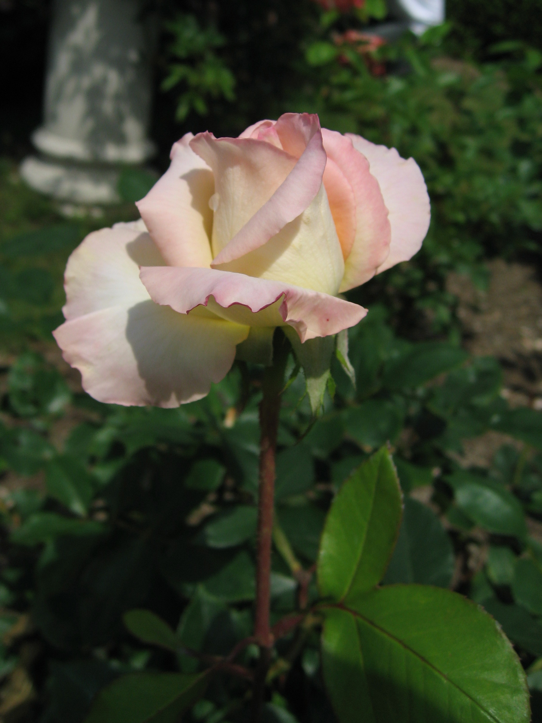 Rosa cv 'Diana, Princess of Wales', HT, Jackson&Perkins (1999), Flower Festival Commemorative Park Seta Kani, Gifu Japan.